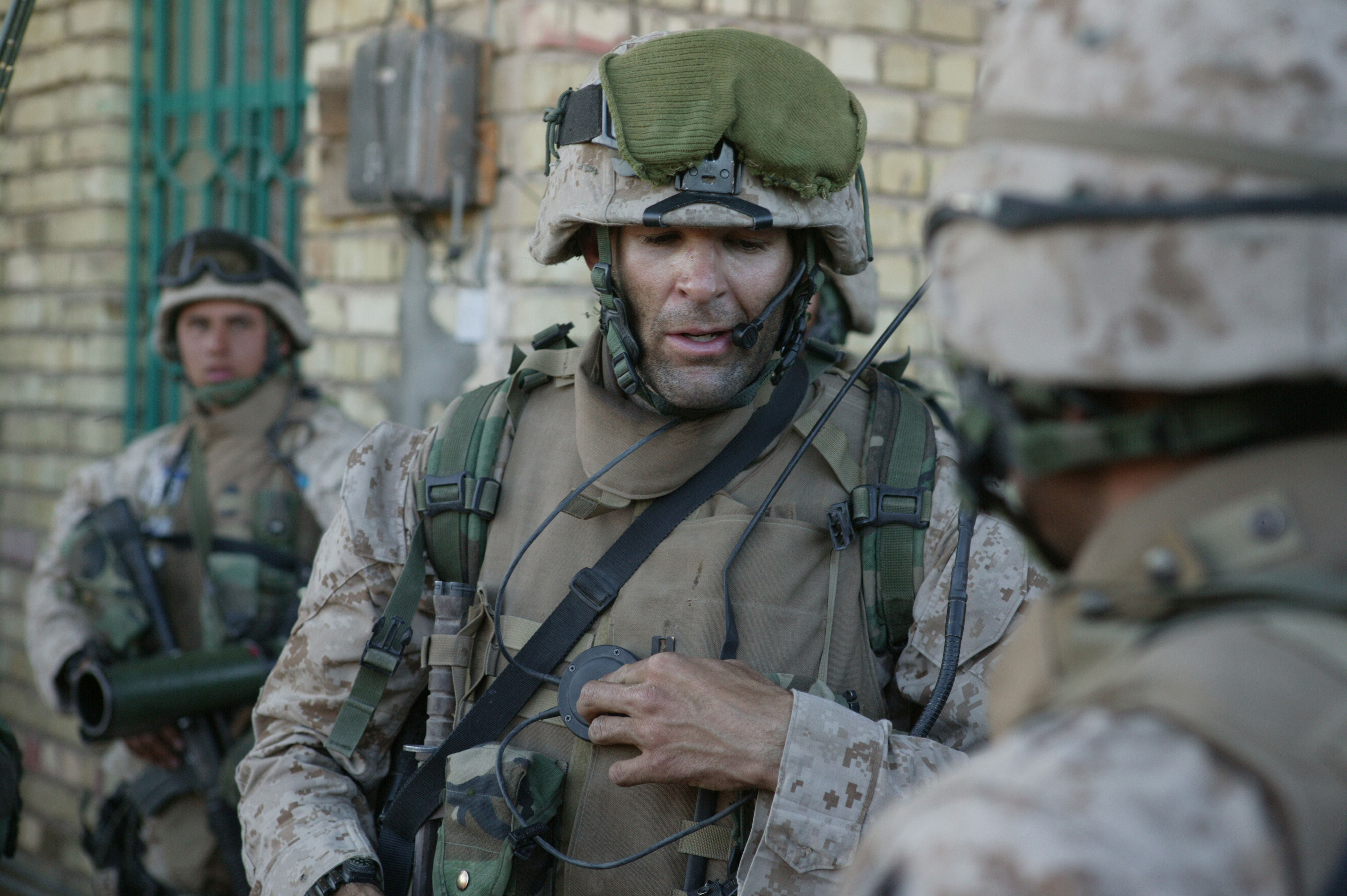 Capt. Doug Zembiec, the commanding officer of Company E, 2nd Battalion, 1st Marine Regiment, 1st Marine Division, gives orders to his men over a radio prior to leaving their secured compound for a short patrol in Fallujah, Iraq April 8, 2004.